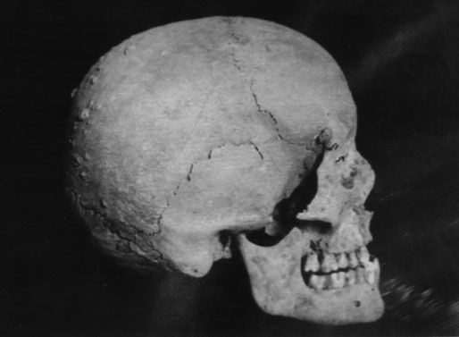 Avicenna Old Mausoleum, this photo is taken and published in1950, the time that his Old Mausoleum is destroyed to move.